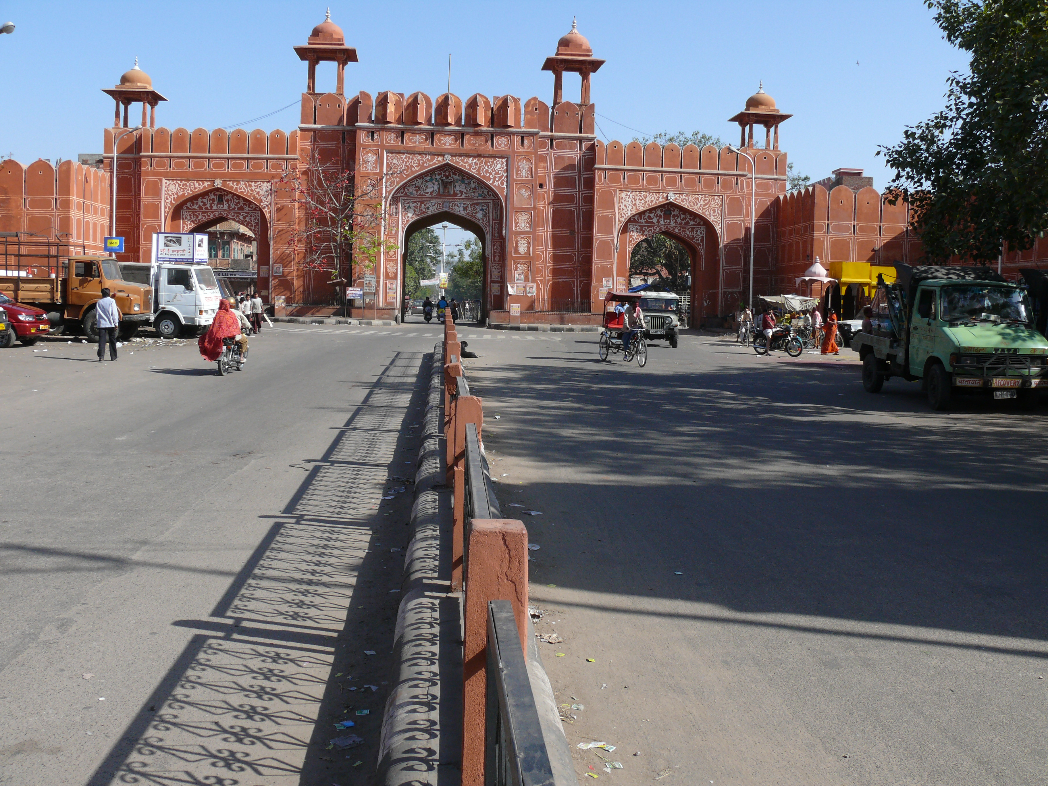 Sanganeri Gate (Jaipur, India)